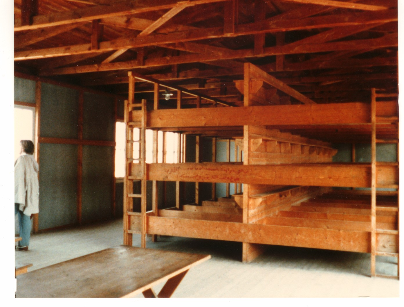 Dachau Concentration Barracks